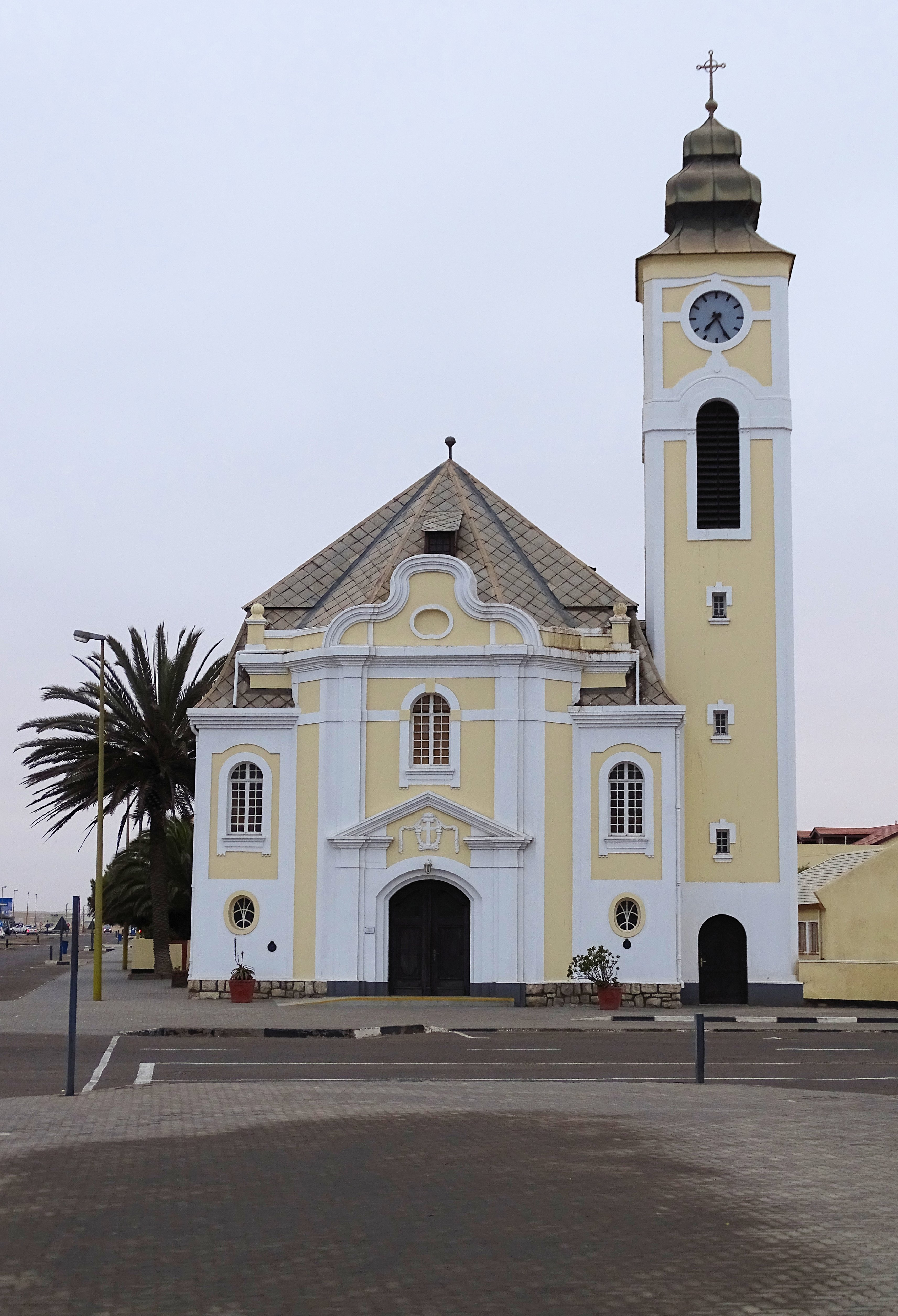 The Deutsche Evangelisch-Lutherische Church in the centre of Swakopmund, Namibia.